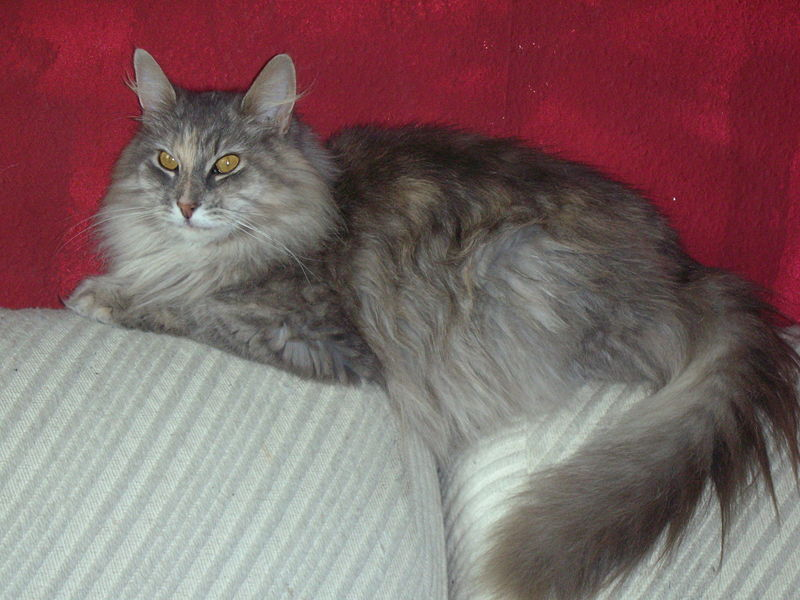 4 year old Maine Coon.